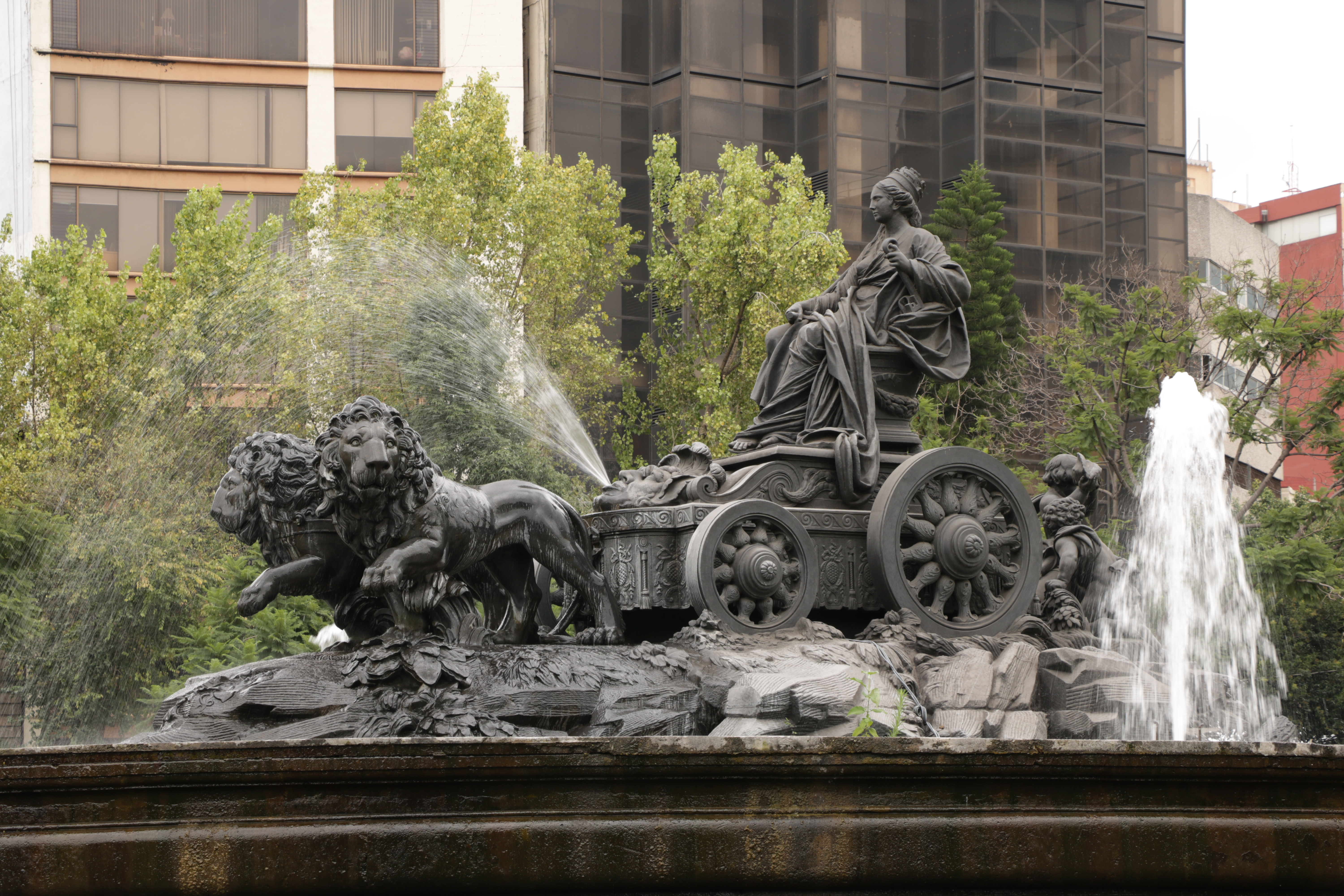 Right side close up of “Fuente de Cibeles” at Colonia Roma, Mexico City.